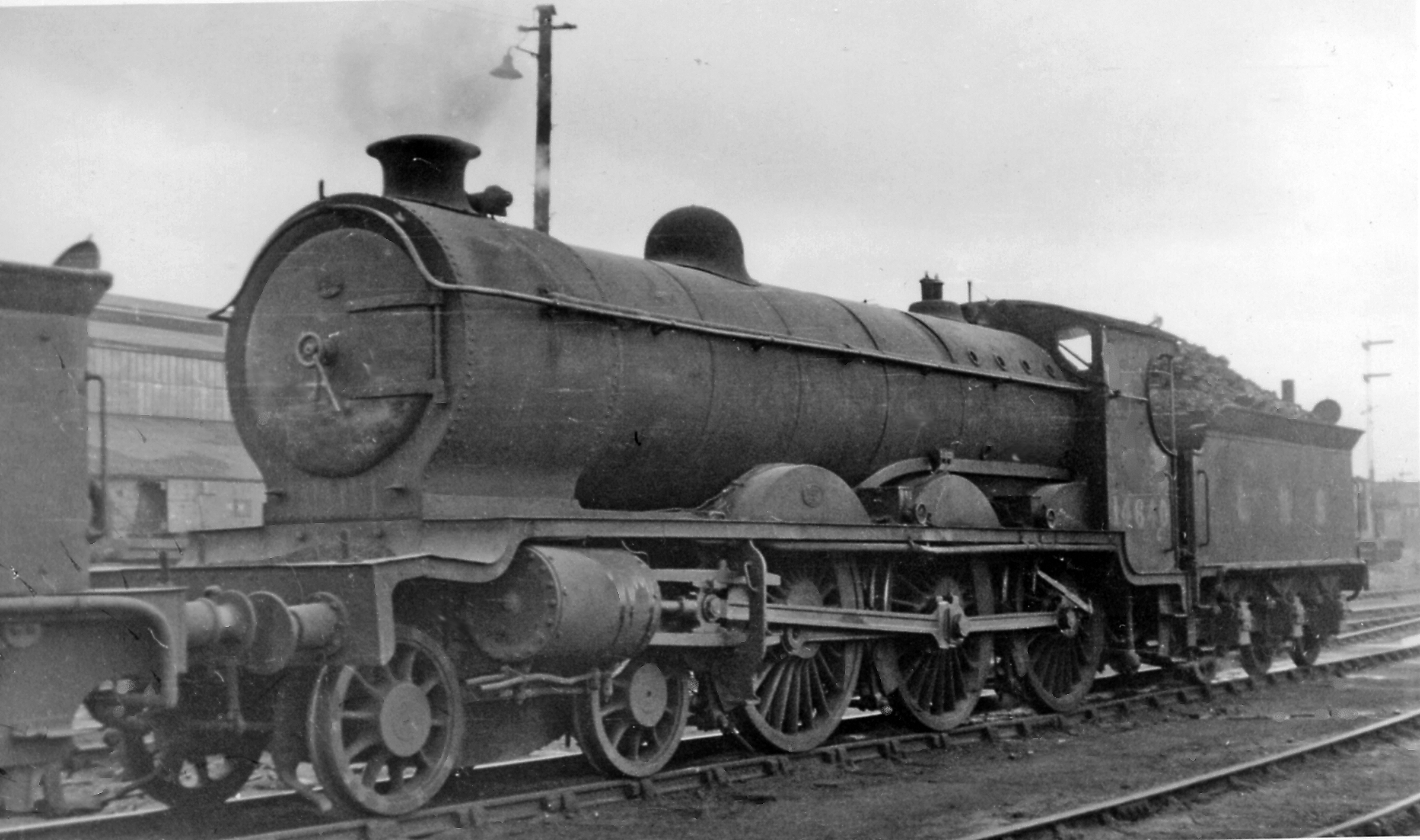 Caledonian '60' class 4-6-0 at Motherwell Locomotive Depot. In the Depot yard is one of the surviving Pickersgill/Hughes '60' class 4 4-6-0s, normally used for freight work. No. 14640 - yet to be renumbered 54640 - rests from its usual work on the main line to Carlisle. This engine was built in 1925 and withdrawn in 10/52. Motherwell Depot was primarily a freight locomotive depot: coded 66B by BR(ScR), it had an allocation in 1950 of 116:- 20 4-6-0, 6 4-4-0, 11 ex-WD 2-10-0, 7 ex-WD 2-8-0, 40 0-6-0, 4 2-6-4T, 2 2-6-2T, 22 0-6-0T and 4 0-4-4T.